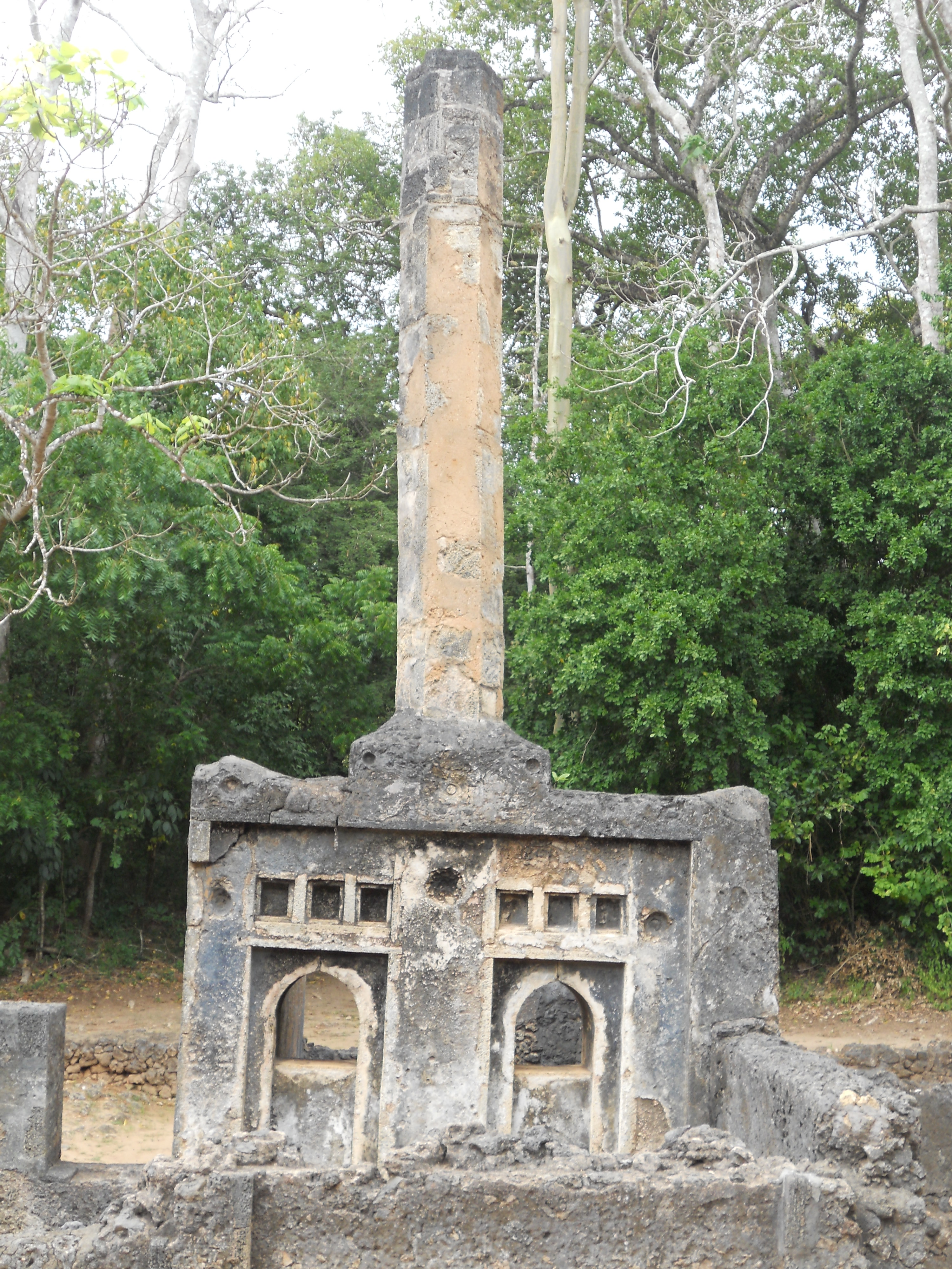 Ruins of Gede, Kenya